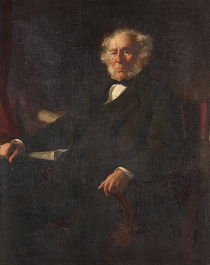 Painting of shipbuilder Robert Steele (1791-1879) of Greenock, Scotland